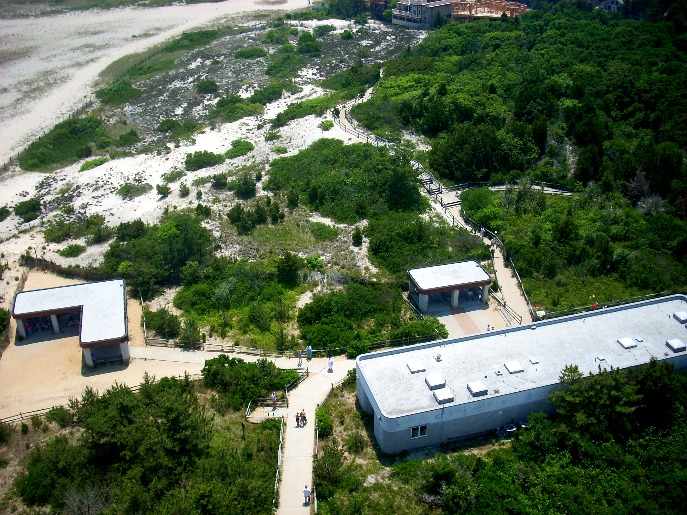 Barnegat Light Interpretive Center from above (top of the lighthouse), Long Beach Island, NJ